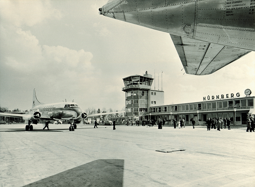 Opening day: a Convair 340 is the first passenger aircraft to touch down at Nuremberg Airport on April 6th, 1955.